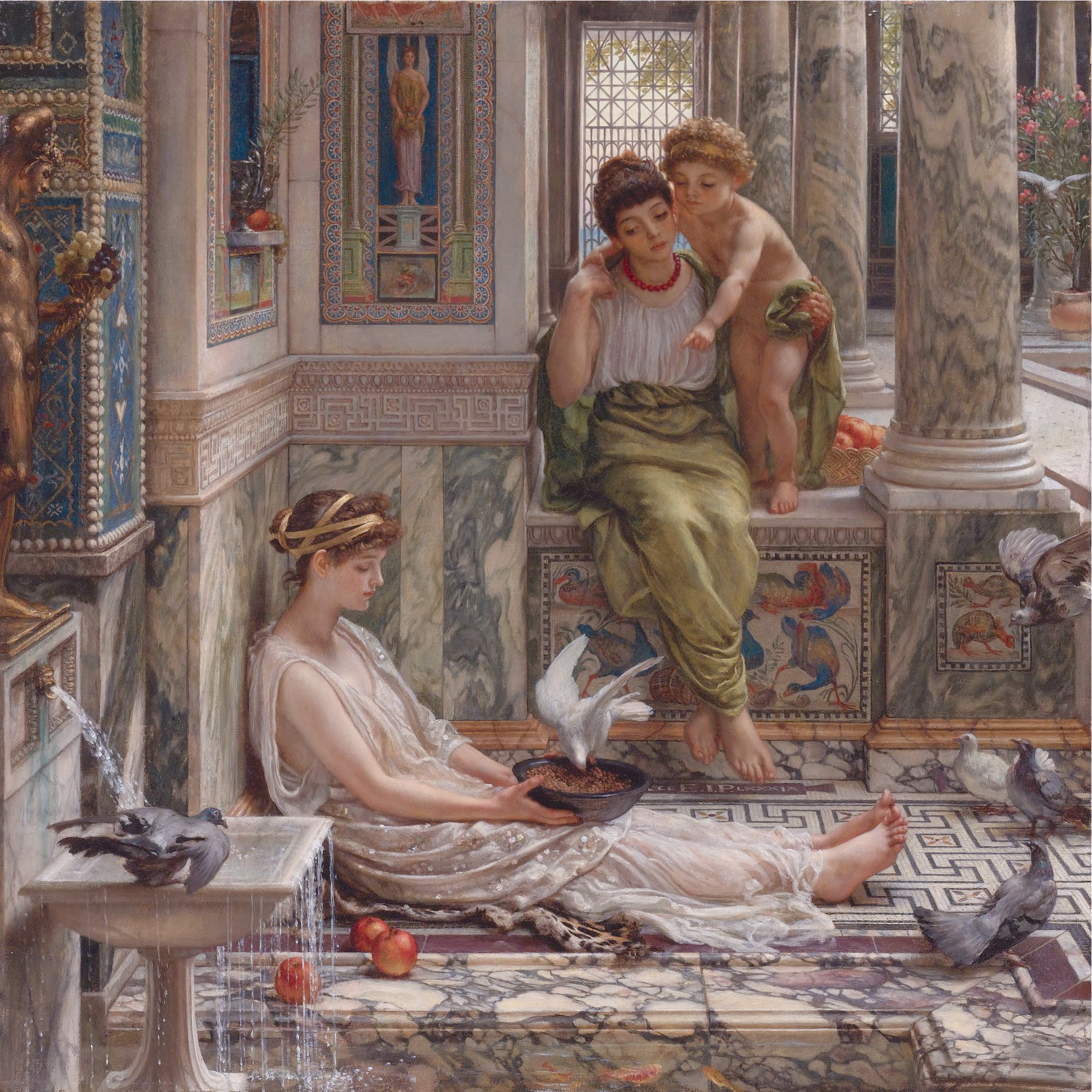 The corner of the villa oil on canvas 62.5 x 62.5 cm signed c.: CCC E.J.P. LXXXIX